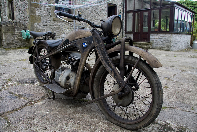 unrestored 1932 BMW R2 Series 2A, prior to restoration in 2011